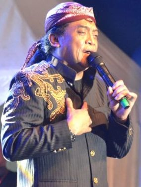 THE 189th ANNIVERSARY, PURBALINGGA WAS ENTERTAINED BY DIDI KEMPOTPURBALINGGA - Goenteoer Darjono Sport Building in Purbalingga Regency became a sea of ​​people attended by thousands of Ambyar's friends from various directions to witness the appearance of Campur Sari singer "Godfather of Broken Hearts" Didi Kempot, Saturday (21/12). Some songs were sung such as: Flying Missing, Gold Necklace, Banyu Langit, Sewu Kuto and Suket Teki.